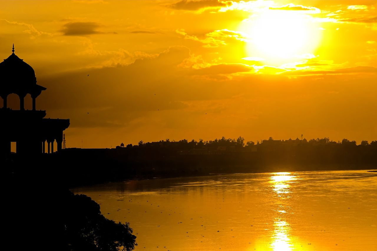 The Yamuna (Jamuna) River as it crosses Taj Mahal at Agra. (Description corrected as per Flickr)